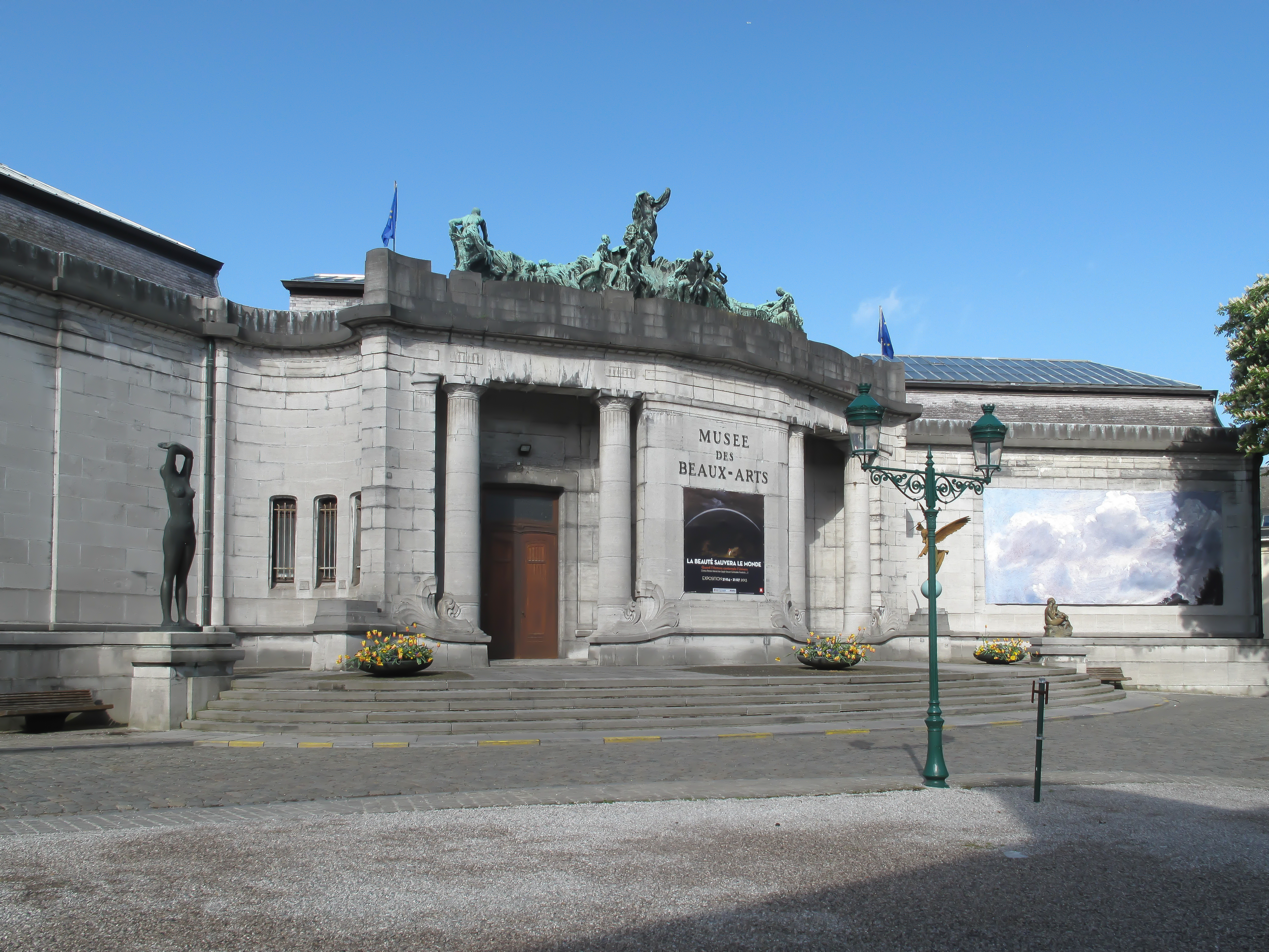 Tournai, museum: musée des Beaux-Arts de l'Enclos Saint-Martin